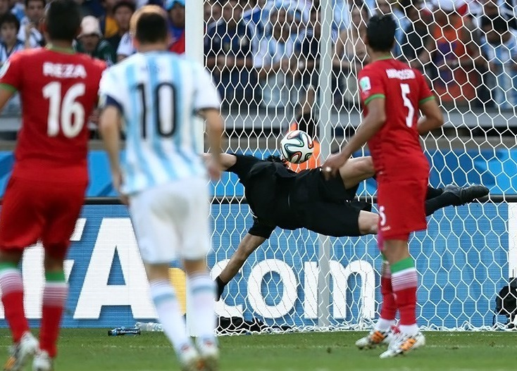 Iran and Argentina national football teams match, 2014 FIFA World Cup Group F